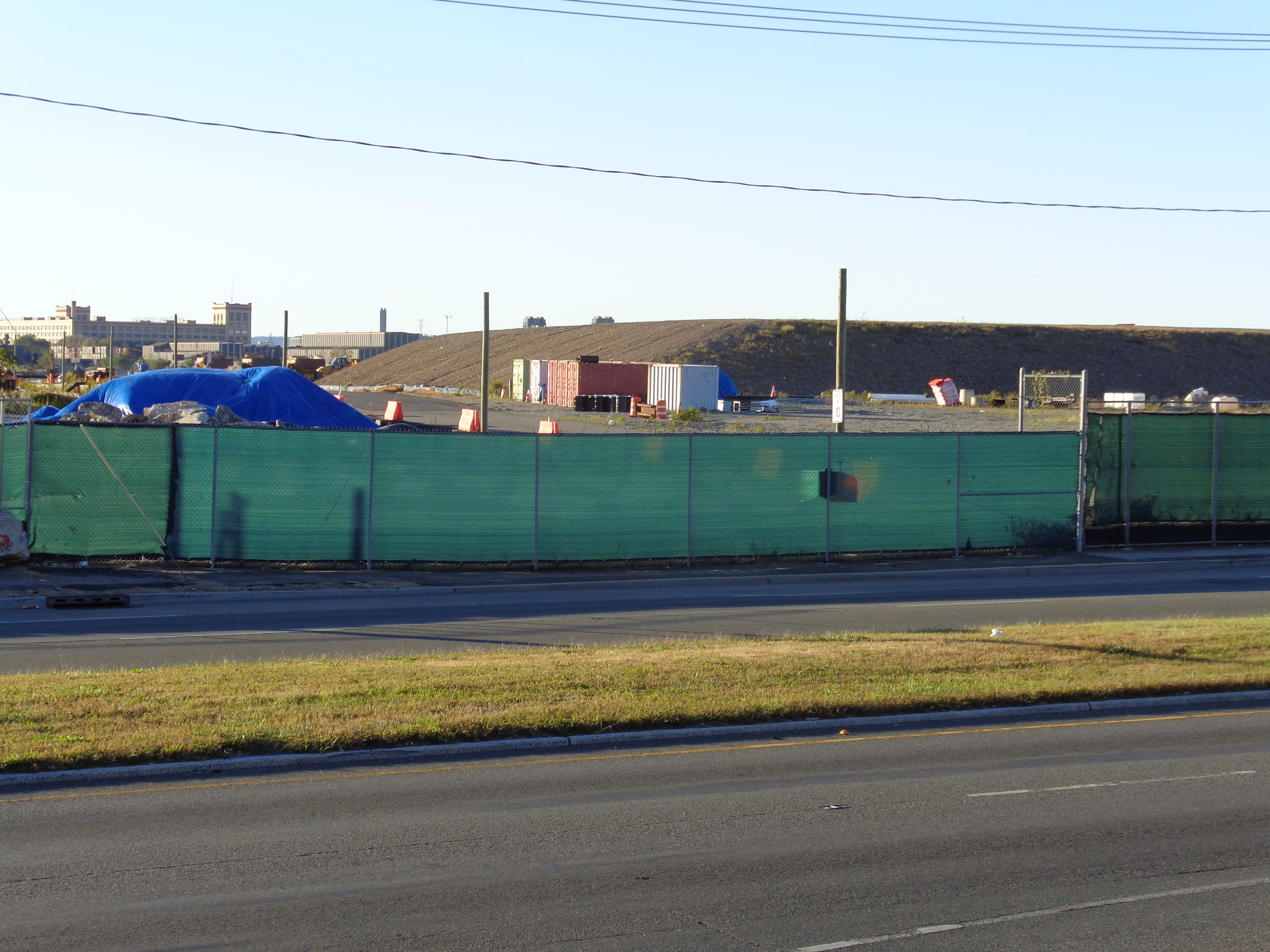 Route 440 on West Side of Jersey City looking to site of Bayfront, proposed JC Redevelopment Agency and Honeywell mixed-use project